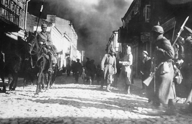 Information added by Wikimedia users.